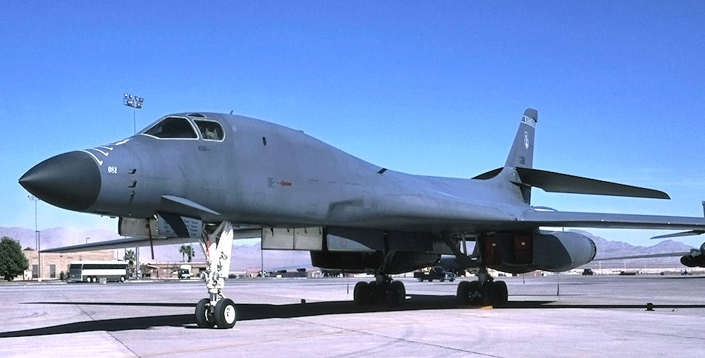 184th Bomb Wing - Rockwell B-1B Lancer Lot IV 85-0081 nosegear collapsed at Diego Garcia Dec 14, 2004. This caused the B-1 fleet to be grounded pending inspection of the nose landing gear. The plane had taken off from Diego Garcia on the way back to Ellsworth but was forced to return due to an abnormal nose landing gear indication. It landed and taxied back to its parking spot, idled for a while, then the nose just fell to the ground.